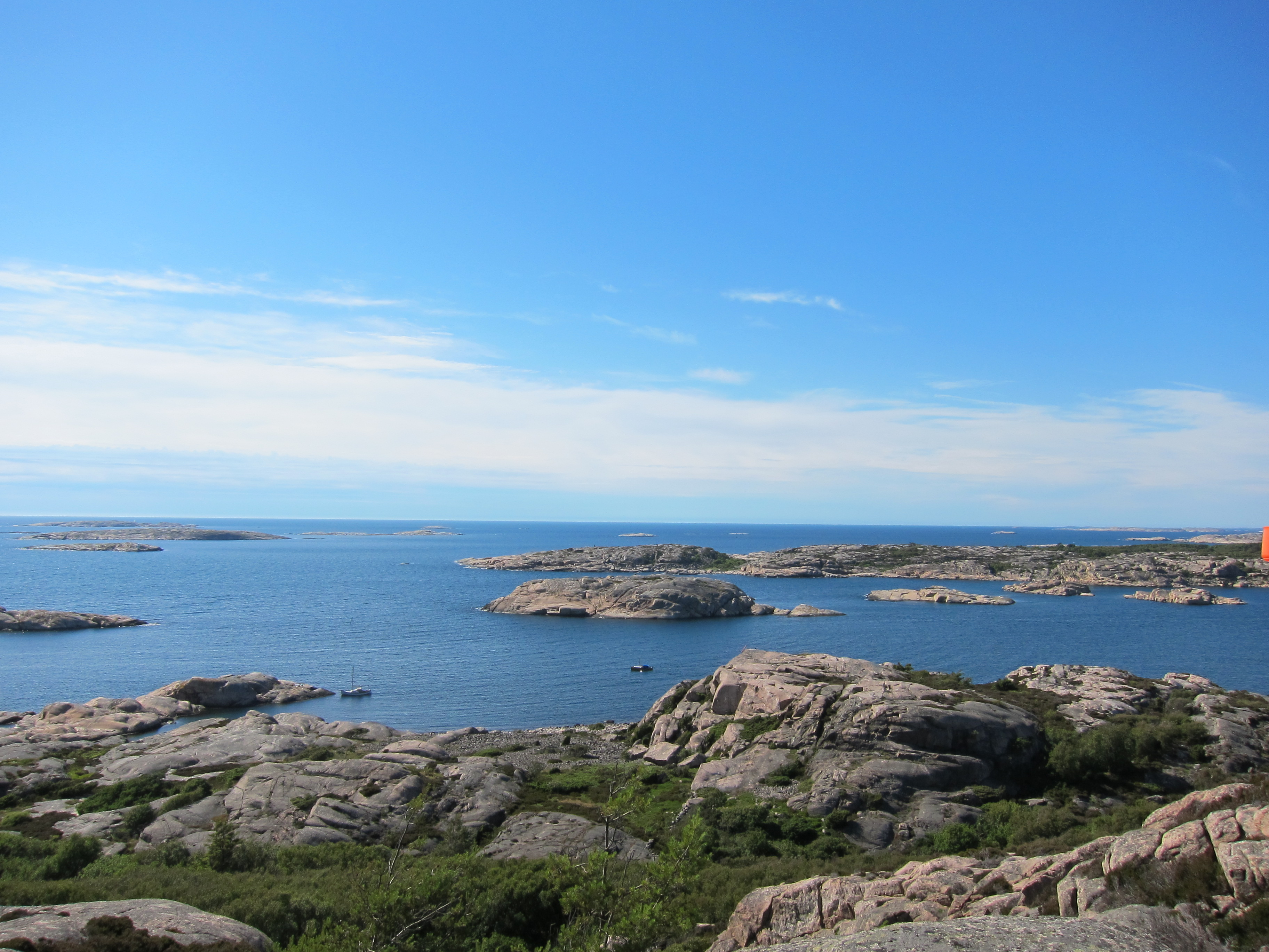 West side of Otterön, Bohuslän, Sweden